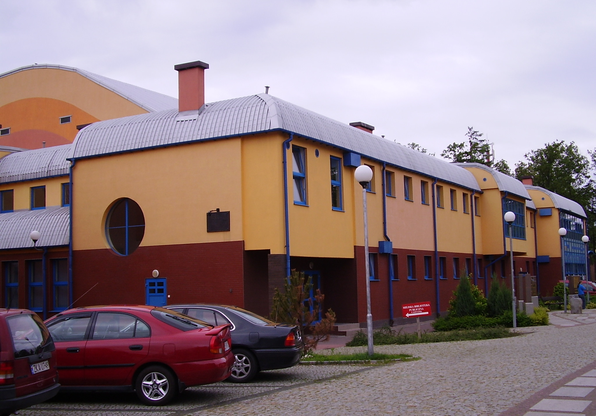 Sports hall in Dziwnów (Poland)